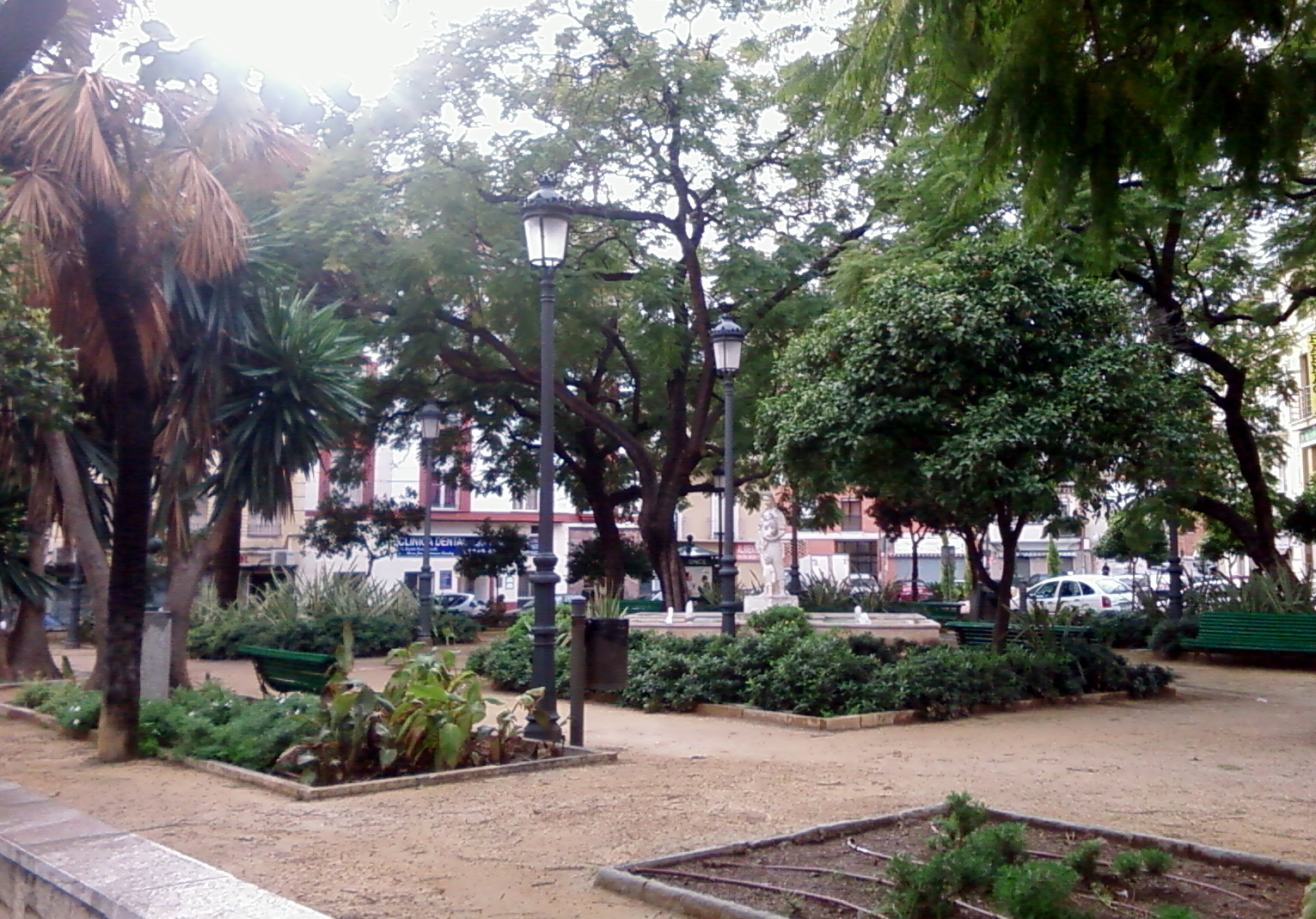 La Victoria Square's garden, Málaga, Spain